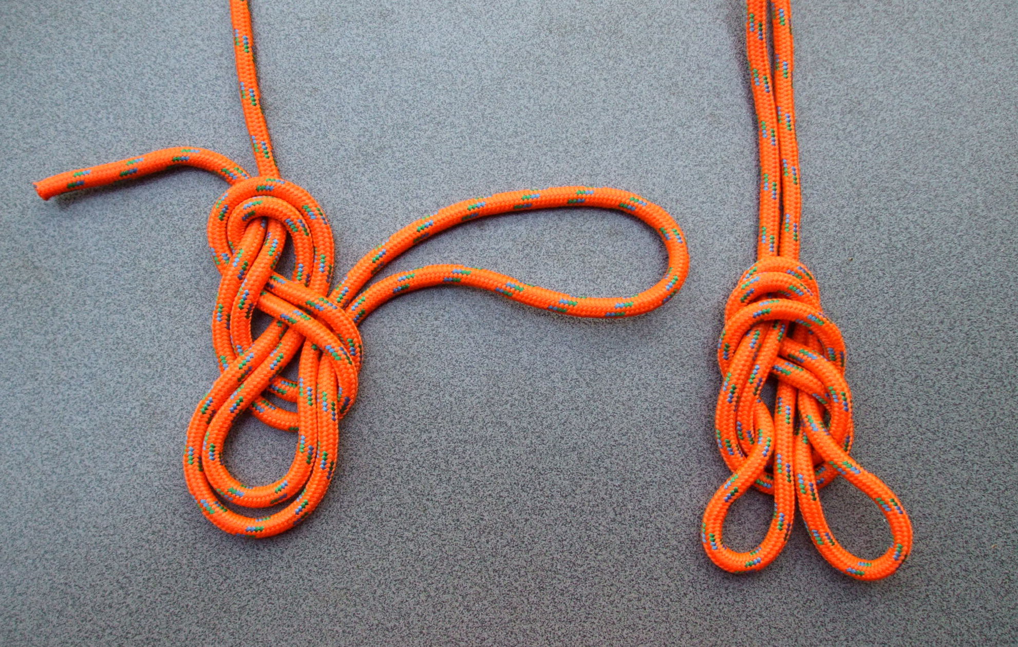 Figur-8-Knot 2-Loop